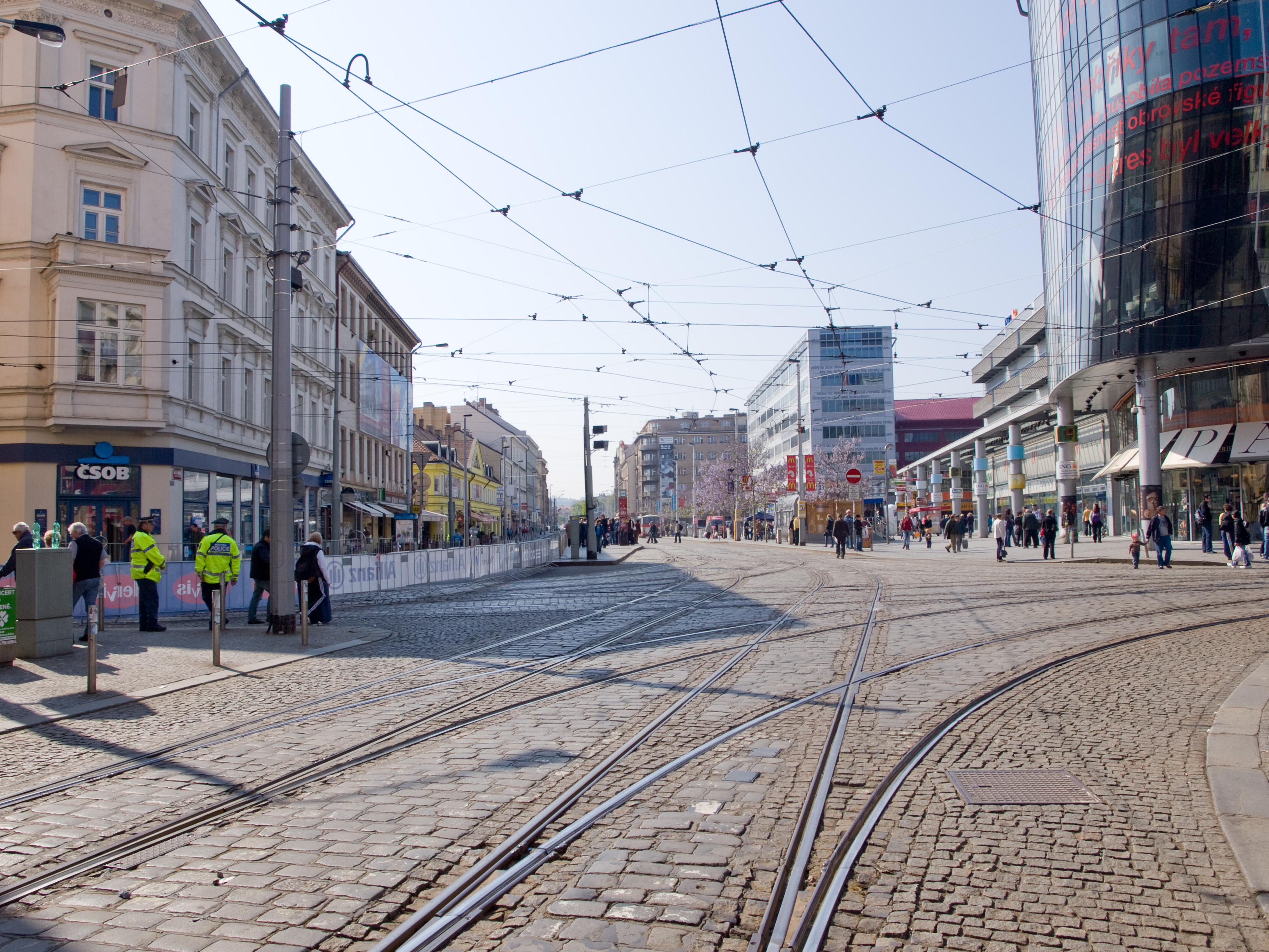 Anděl crossroad by Prague International Marathon 2010